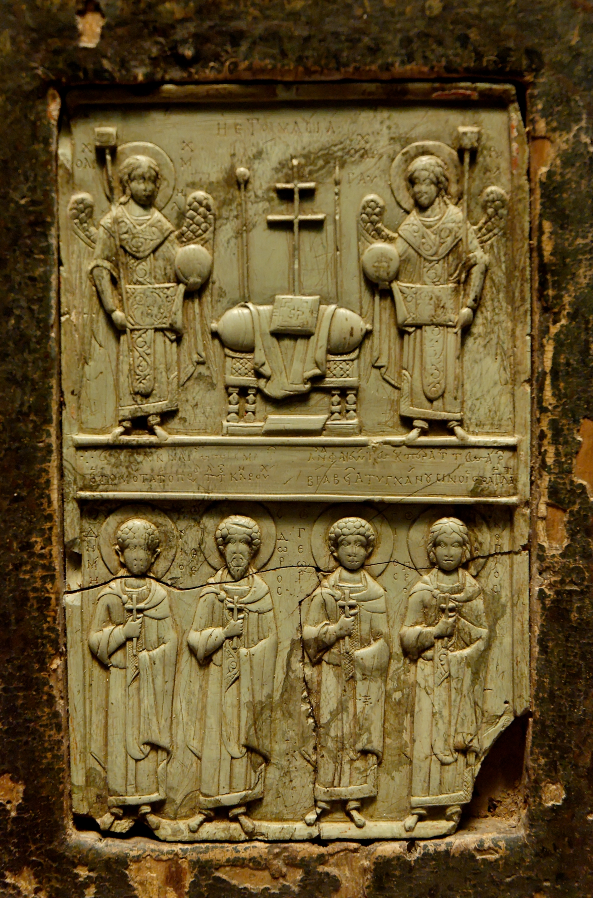 Icon with hetimasia (empty seat of God awaiting the Judge) on the upper register and warrior saints on the lower register. Constantinople, late 10th century-early 11th century. Wooden frame; steatite with gold.